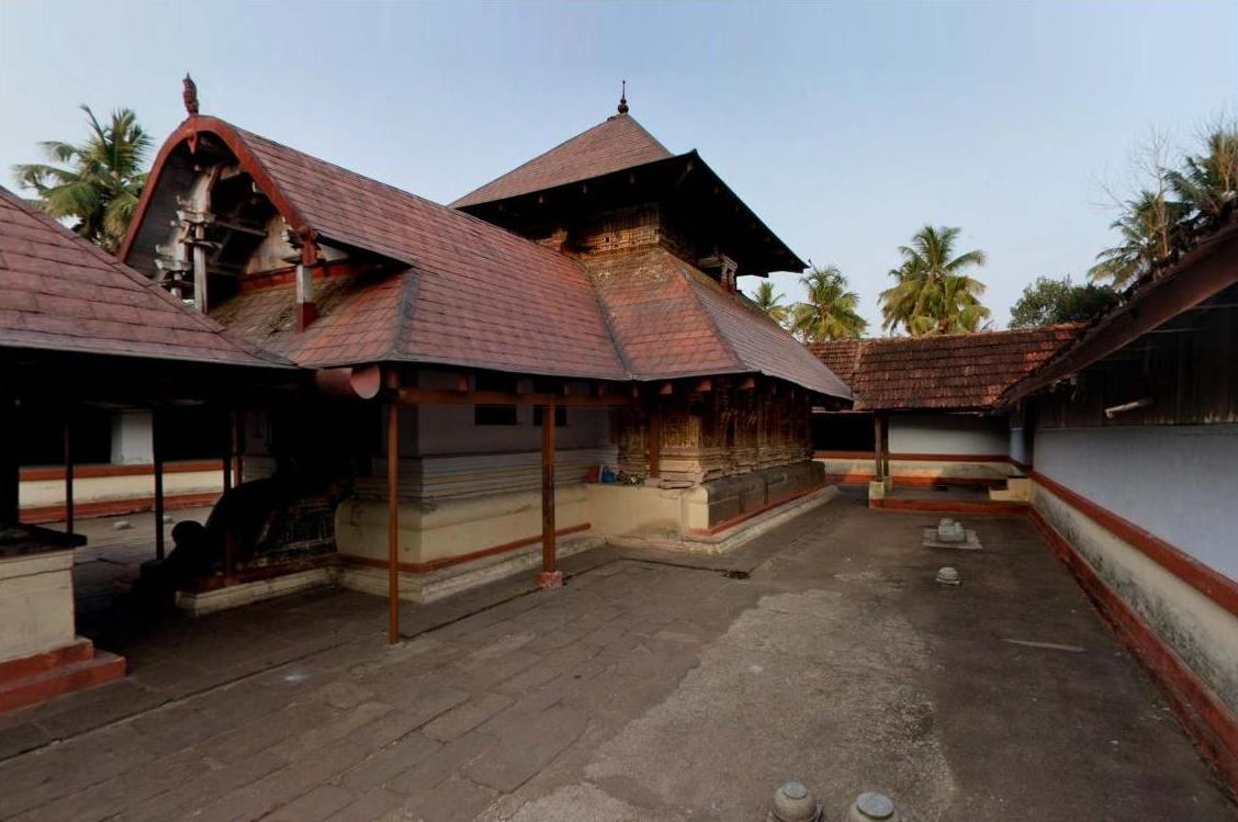 Thalikotta Temple Main Srikovil